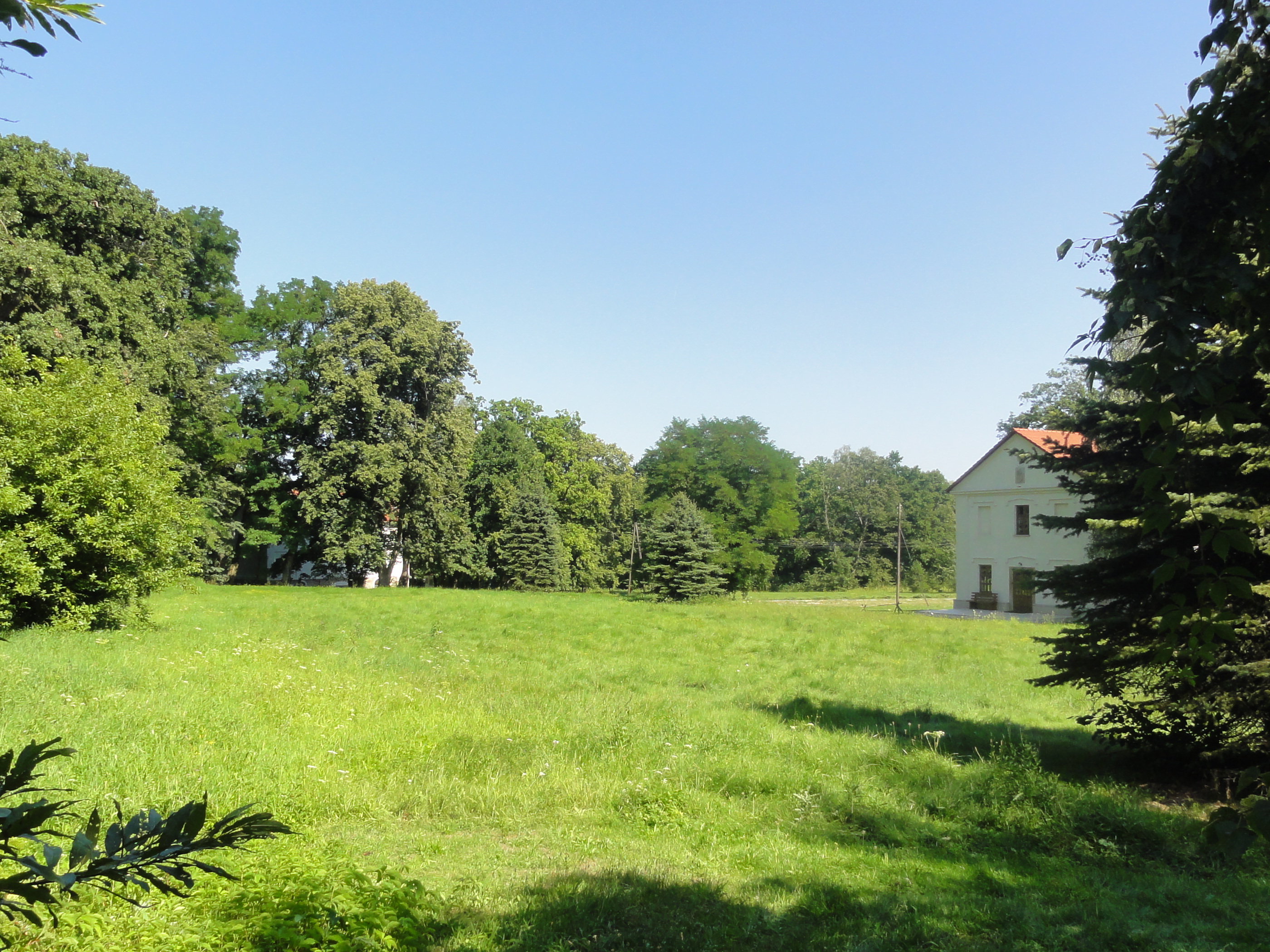 Area of the former manor house in Gierałtowiczki